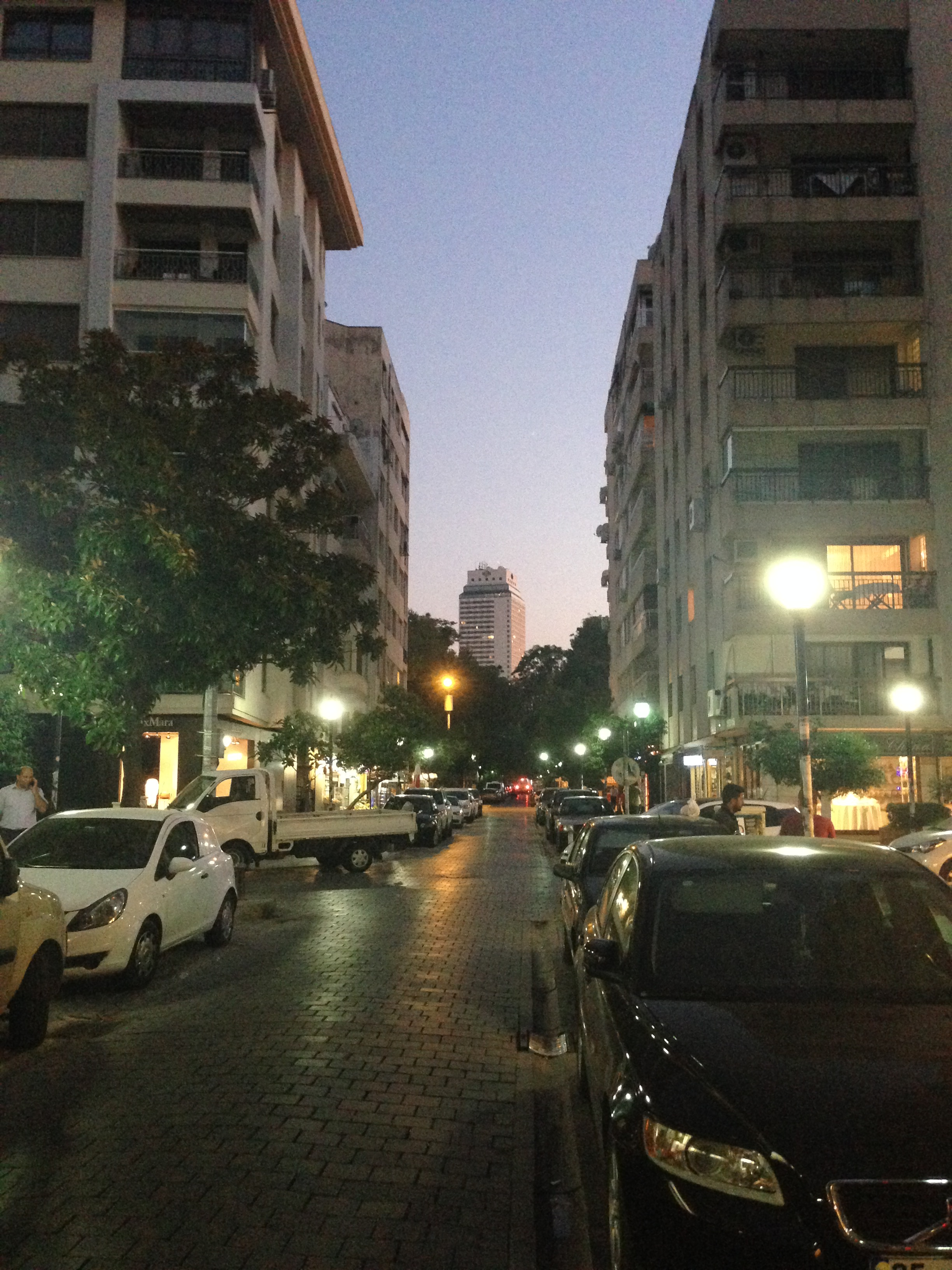 Sevket Özcelik Street in Izmir, Turkey.